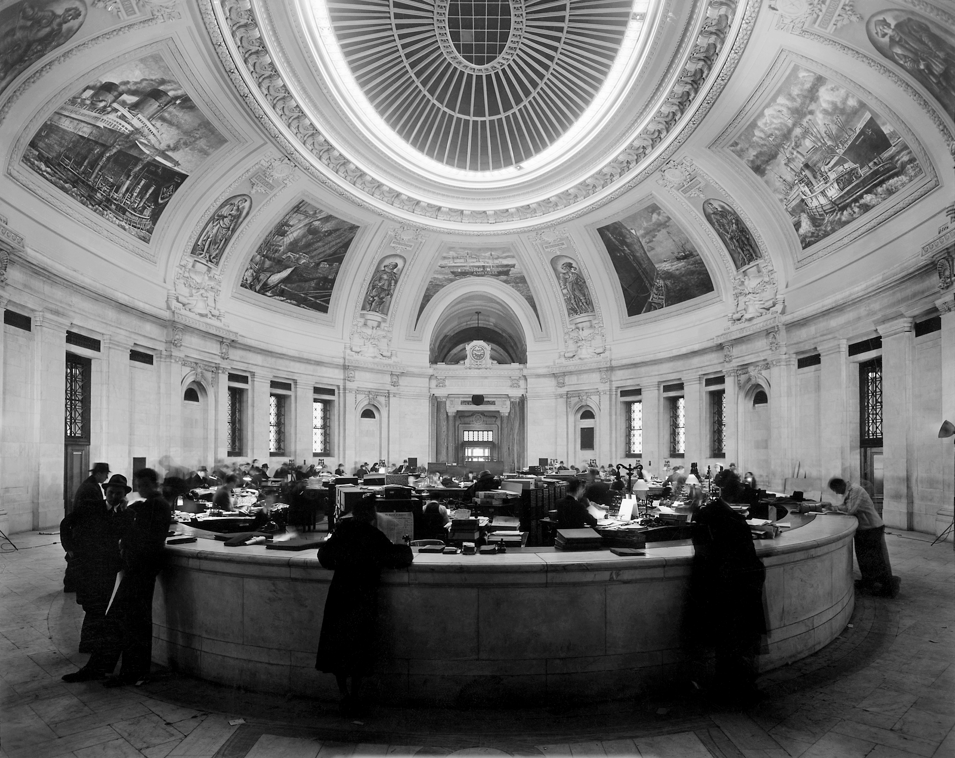 Murals in fresco by Reginald Marsh, New York City Custom House; commissioned by the Treasury Relief Art Project